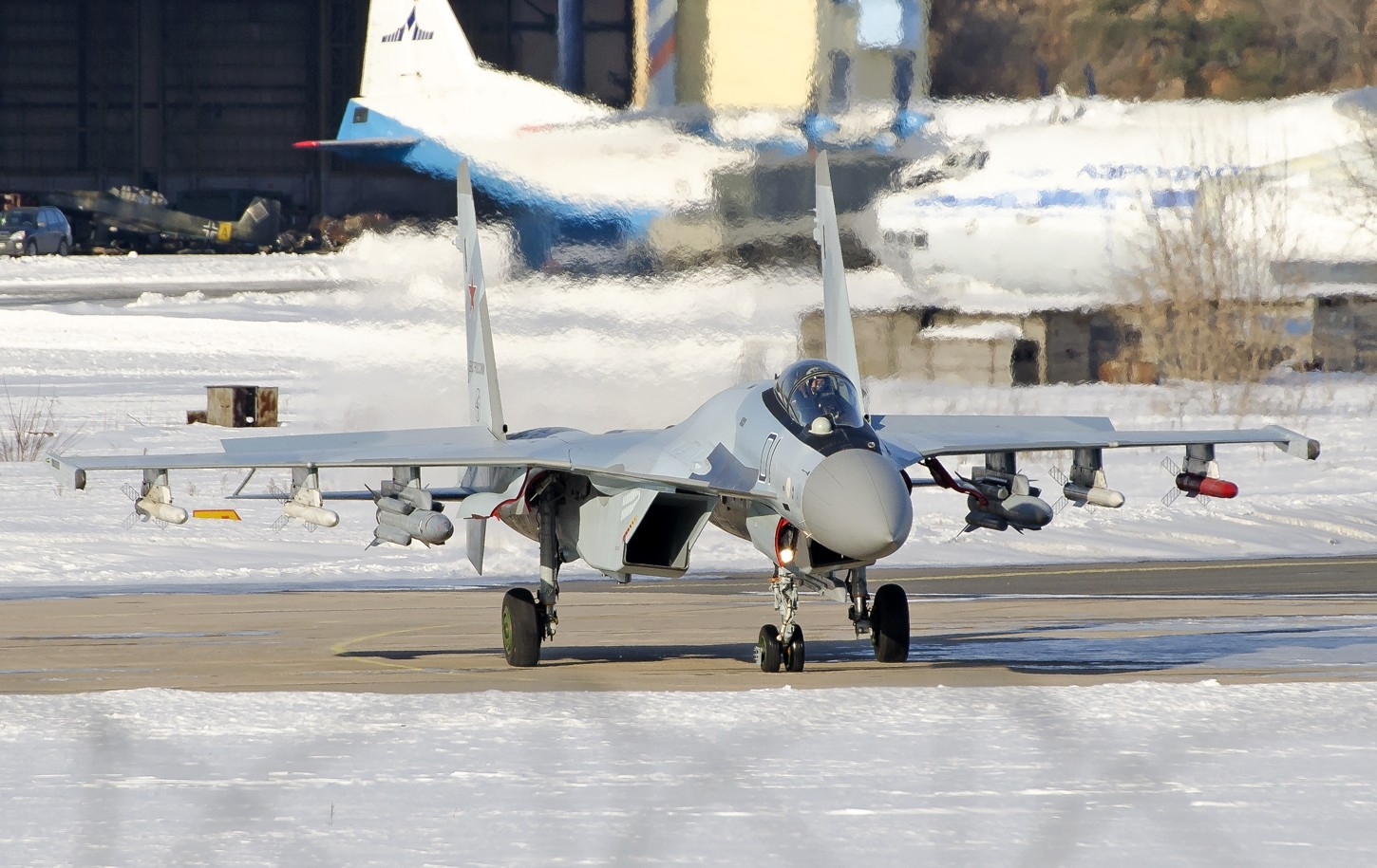 Su-35S of Russian Air Force